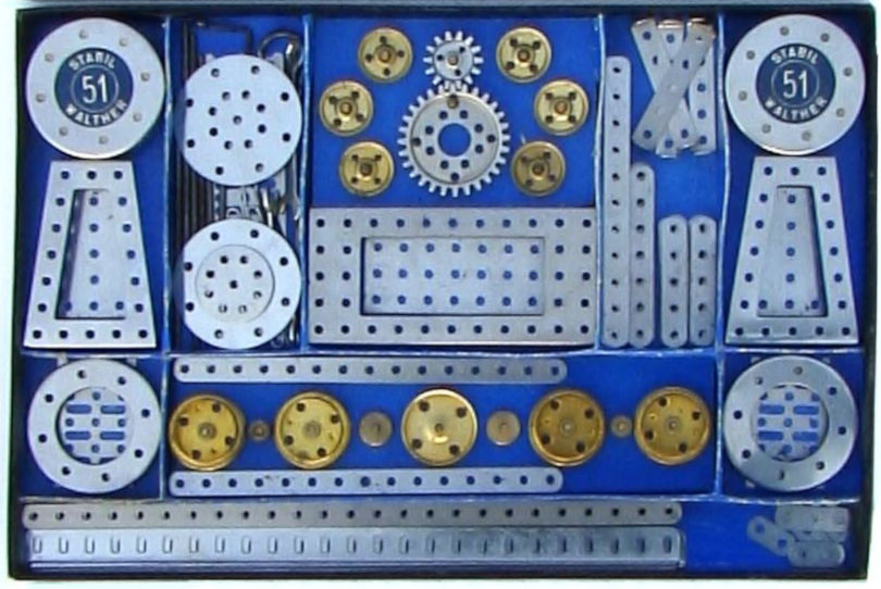 The picture is showing the ground carton of a set in good condition. Lid and manual are not to be seen. There is no proof, that the parts were exacty arranged in the same positions in a new and unused set.